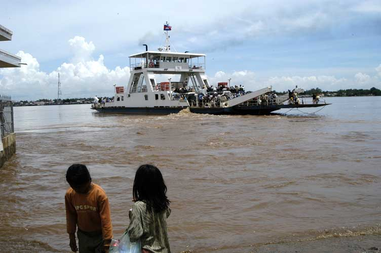 Mekong ferry, Rt. 1. takes vehicle and passengers across the Mekong to the town of Neak Leoung in Prey Veng